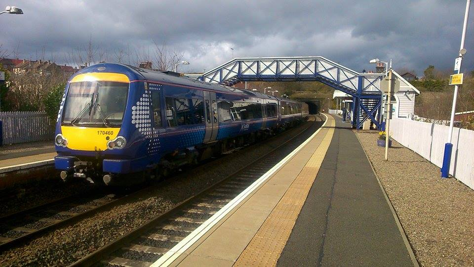 A class 170 stands at North Queensferry awaiting a service to Glenrothes